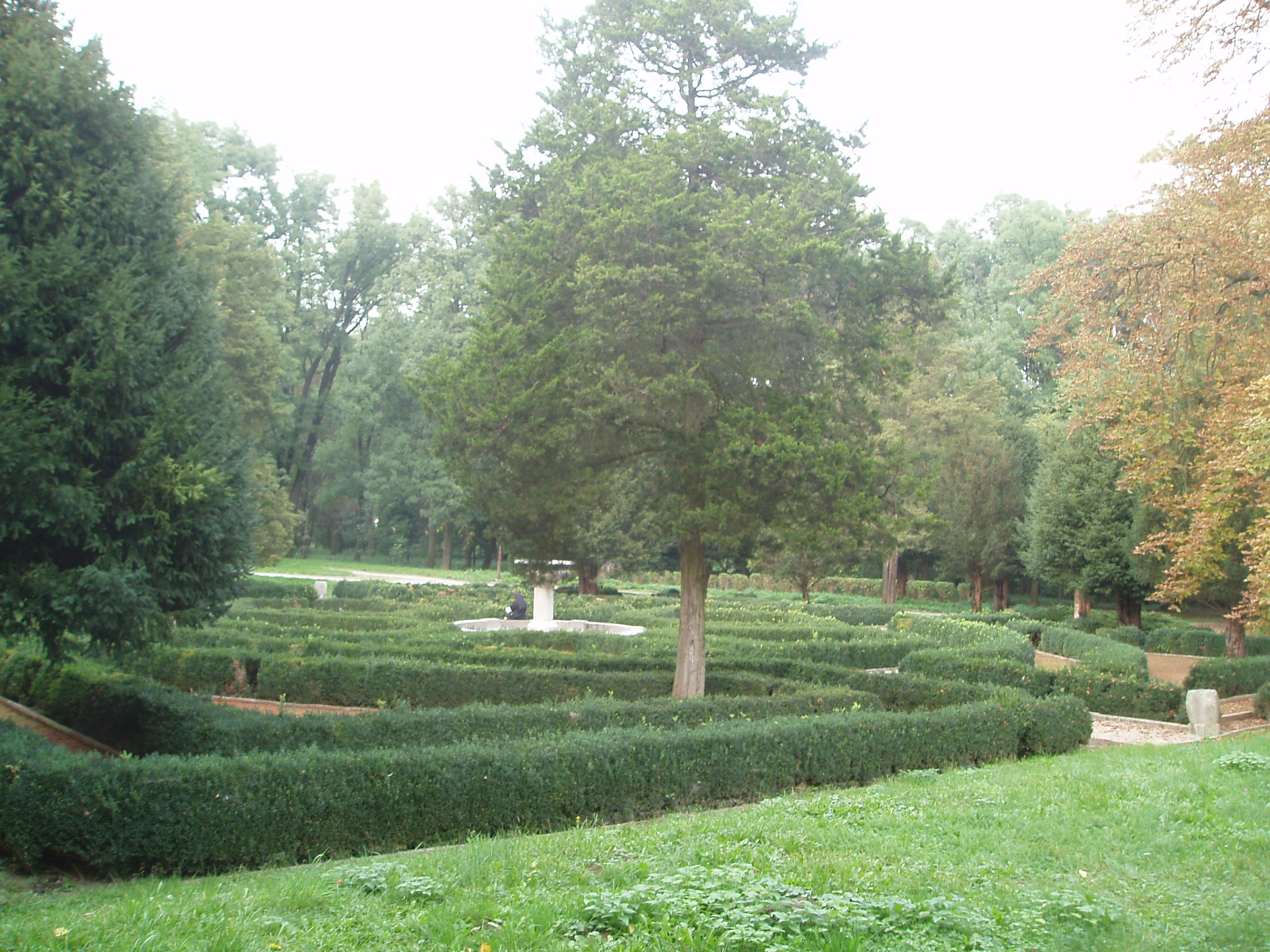 Beginnig of the park of Trebišov next to National History Museum's garden.